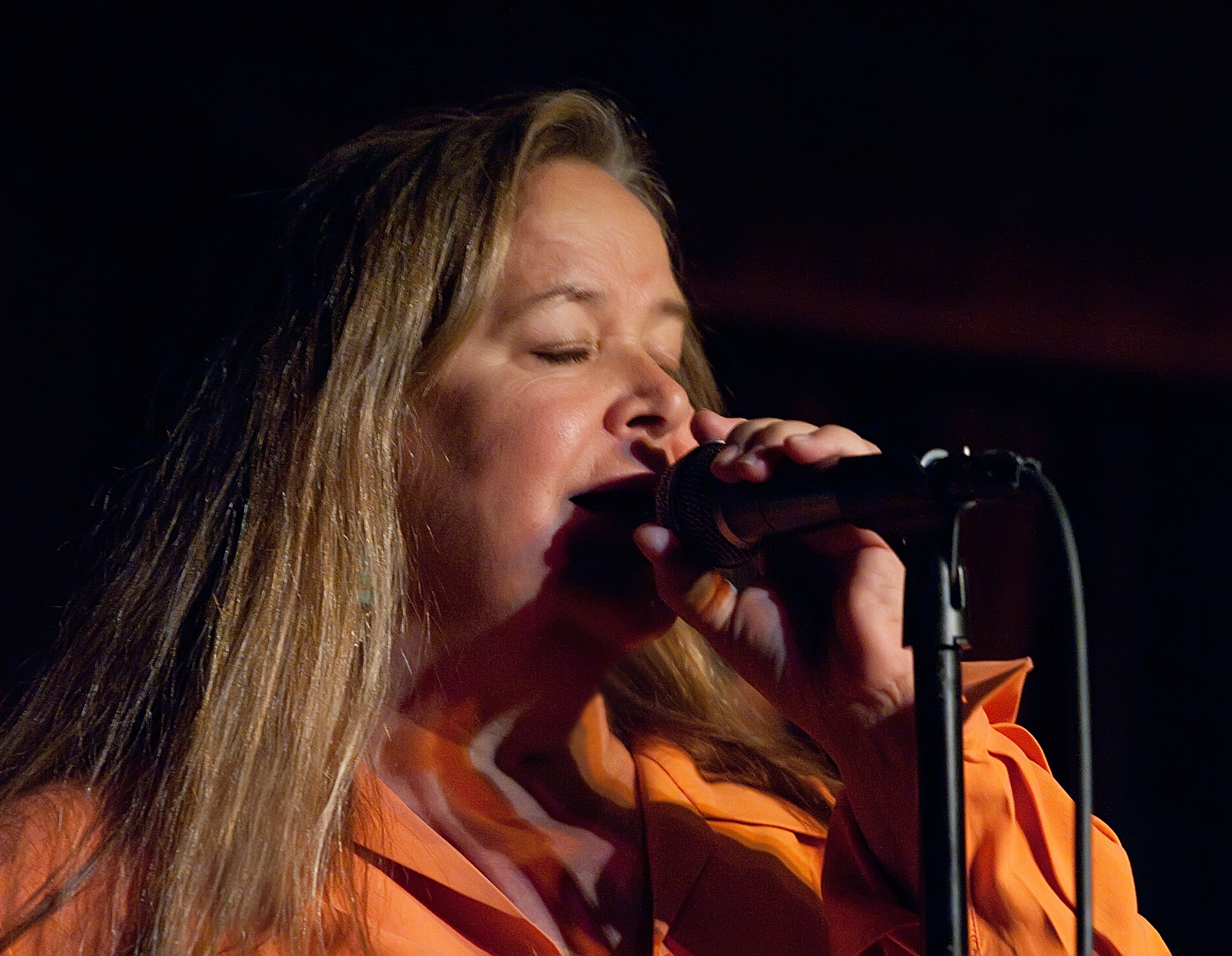 Tracy Nelson – Blues & Soul Singer